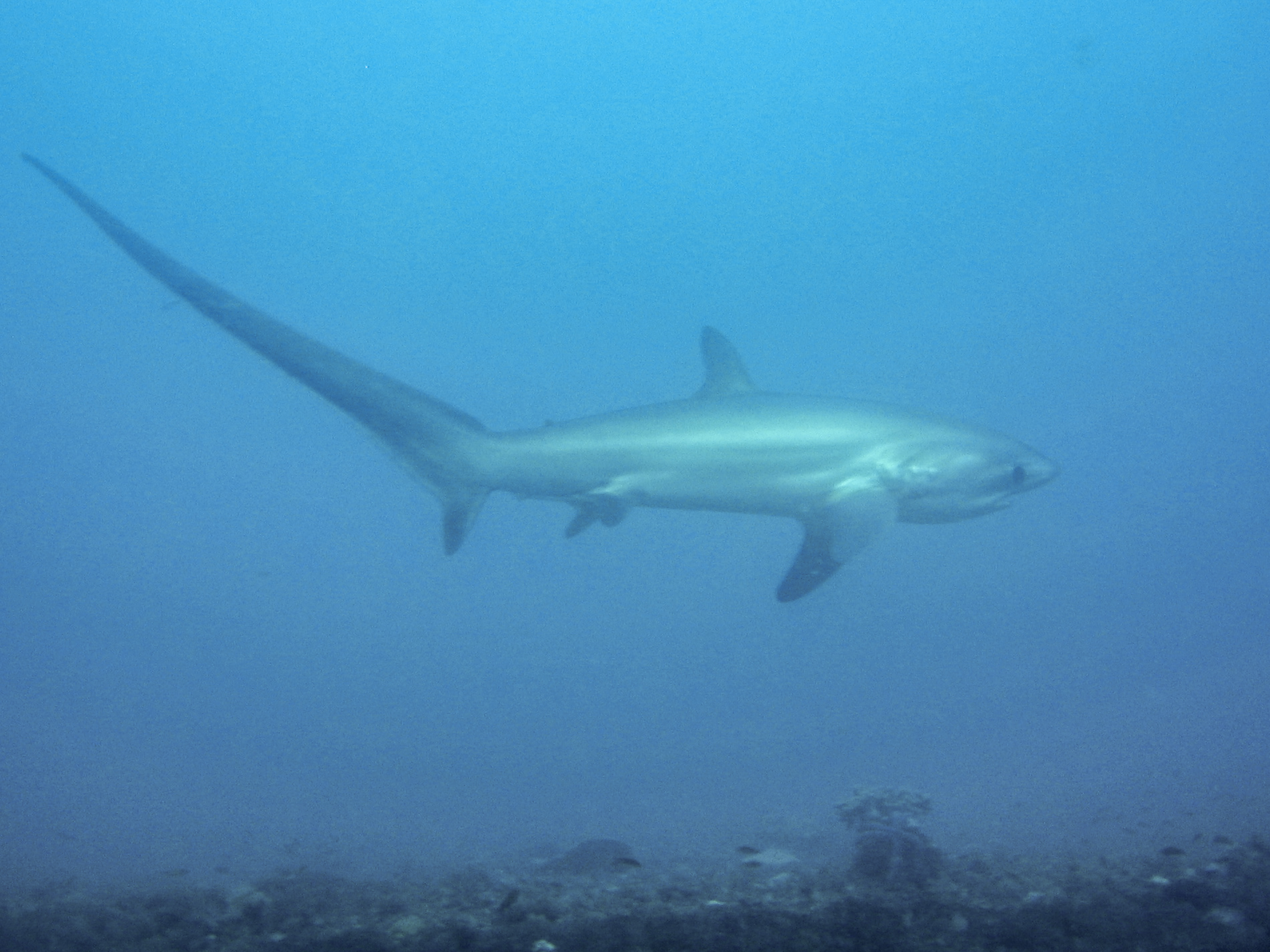 Pelagic thresher (Alopias pelagicus) at the Monad Shoal, Malapascua.